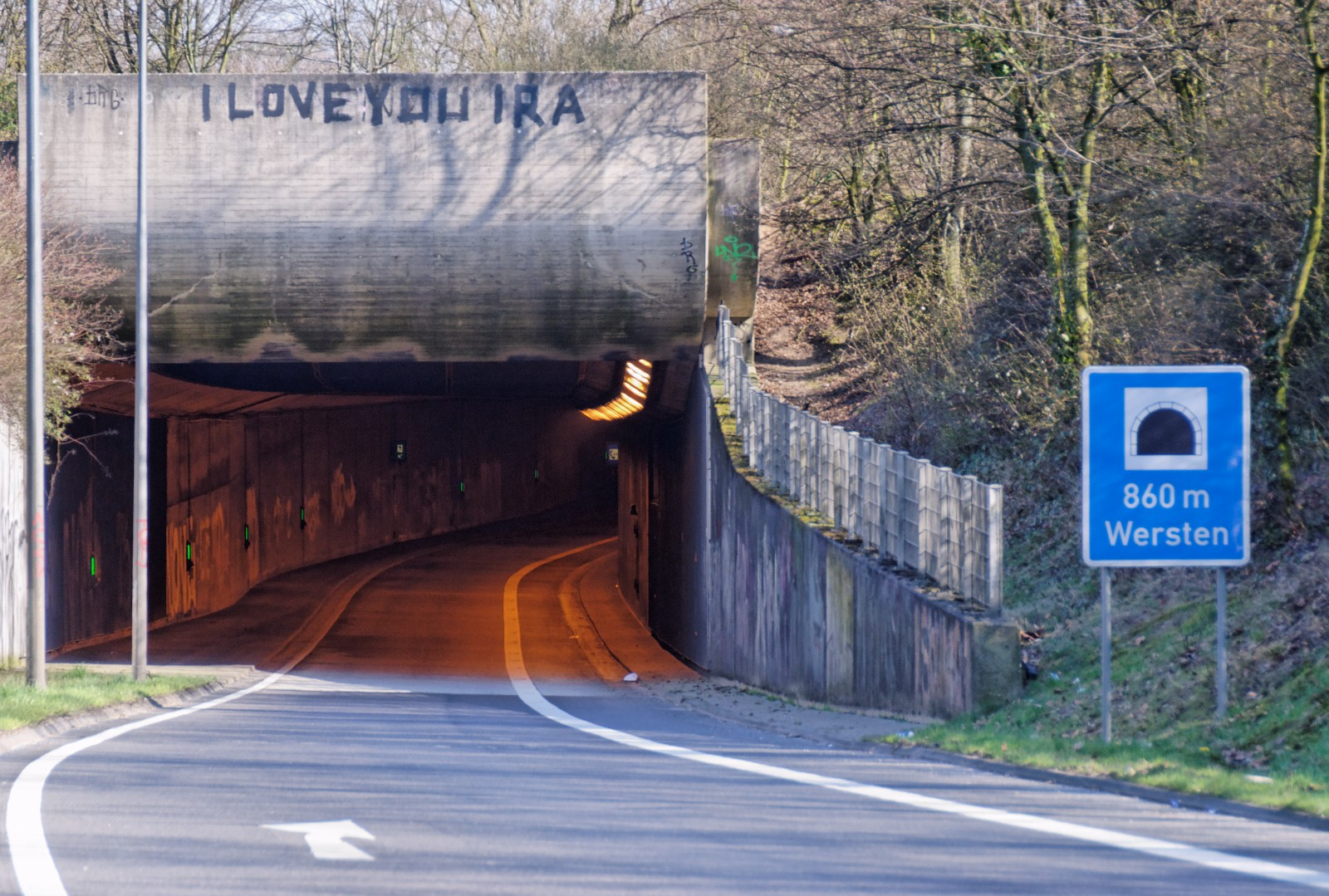 Wersten Tunnel in Düsseldorf-Wersten, Germany